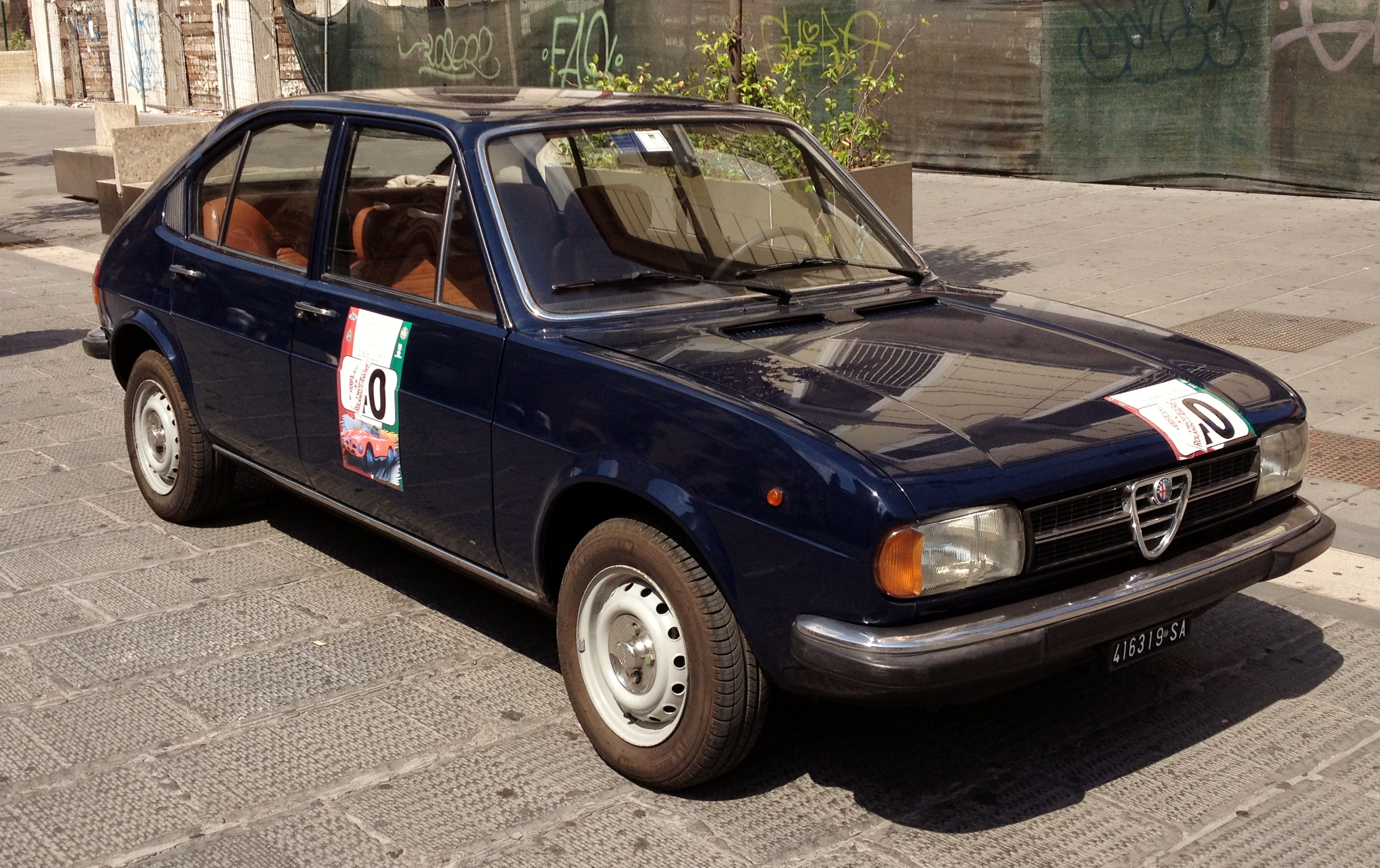 Alfa Romeo Alfasud 1.3 4door front (title is wrong - this is not a 5door!)